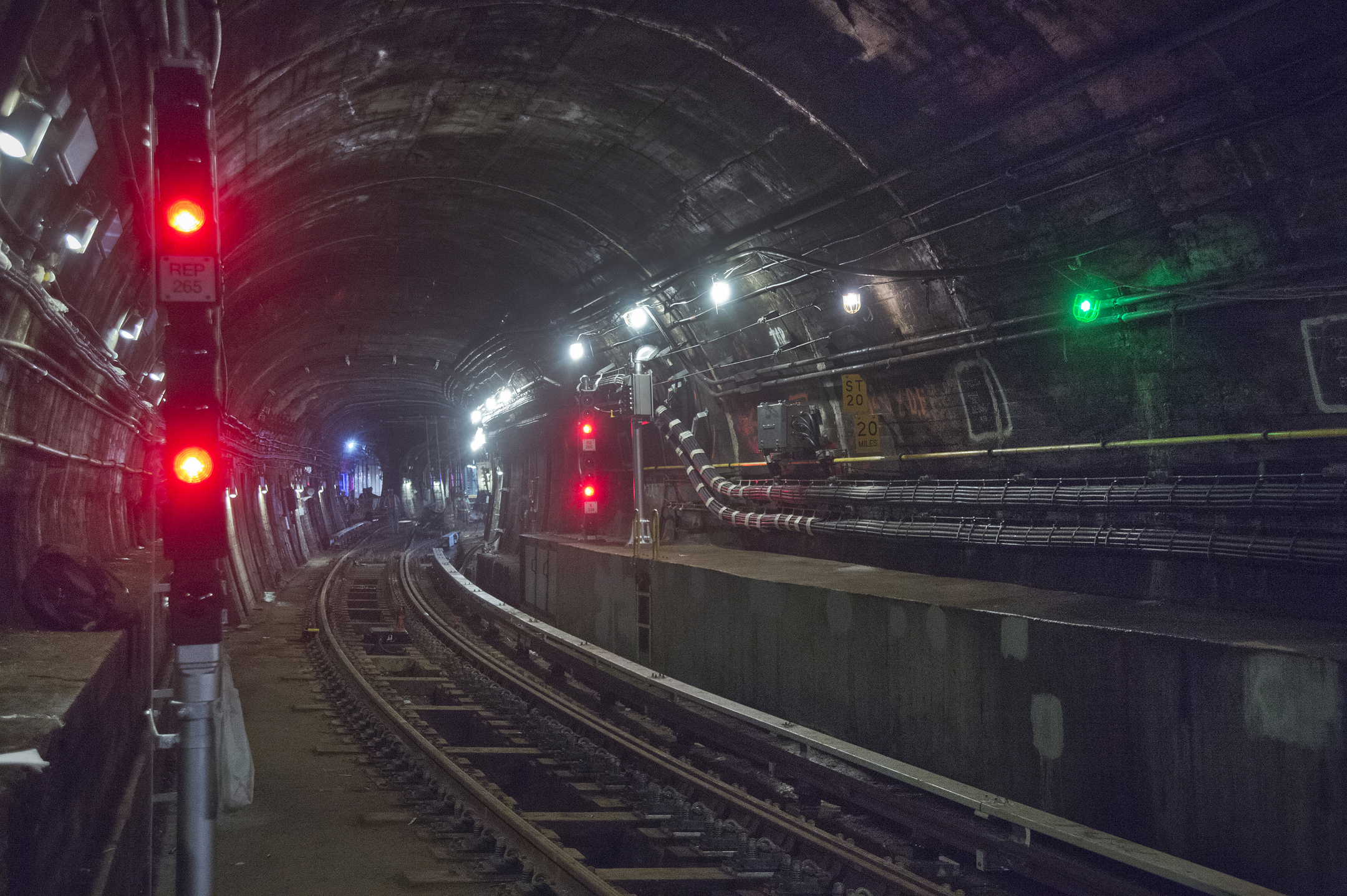 Fix&Fortify work to the R Subway Line Icon Montague Tubes has been completed. The restoring and rebuilding efforts began Friday, August 2 at 11:30 p.m. This was part of the most extensive and wide-ranging reconstruction effort in MTA history after Superstorm Sandy devastated the subway system.